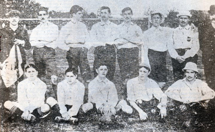 The Club Nacional de Football team that won its second league title in 1903.